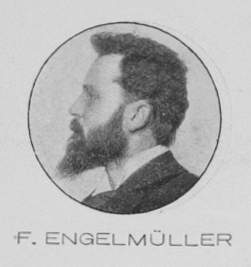 Portrait of Ferdinand Engelmüller (1867-1924), Czech painter.